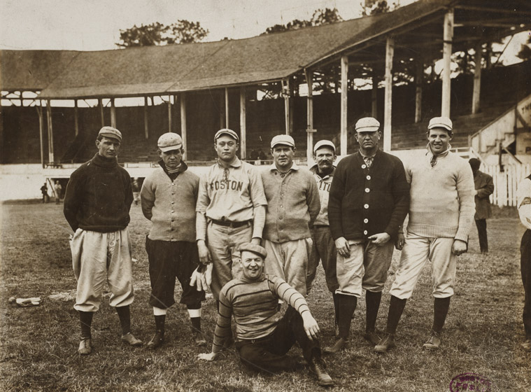 Accession No.: 06_06_000035 Title: Players at Boston Red Sox Spring Training in Little Rock Arkansas Creator: unidentified Date: 1907 Format: photograph Description: Left to right: Railing, Killian, pitcher Ralph Glaze, Michael T. McGreevey, pitcher Cy Young, pitcher Rube Kroh, and trainer Charlie Green in front. BPL Collection: McGreevey Collection BPL Department: Print Subject: Baseball--History Spring training (Baseball)